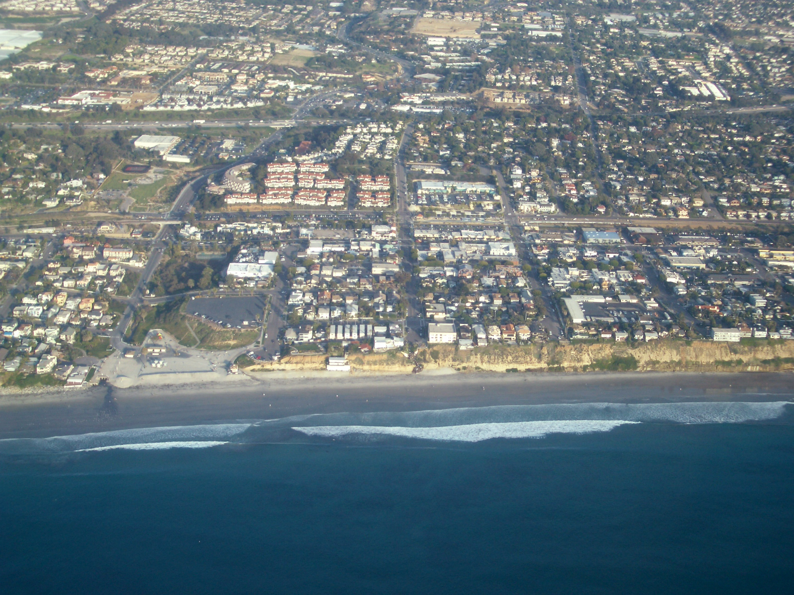 Moonlight Beach park - Encinitas - San Diego County, California. Author: Travis Hornung URL:[1] Photographer suggested that photo be used: [2]